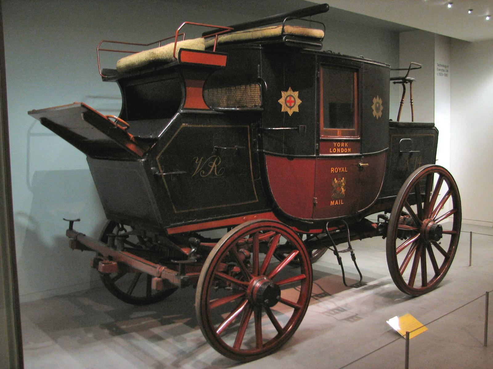 Science Museum, London - Old Mail Coach c1820 Was used between London and York. One of the few genuine surviving mail coaches.